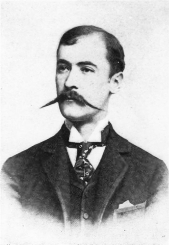 Prince Alexis Karageorgevich (10 June 1859 – 15 February 1920) was the head of the senior non-reigning branch of the House of Karageorgevich and a claimant to the Serbian throne.